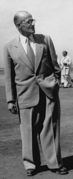 Pierre Jeanneret, Le Corbusier y Raoul La Roche